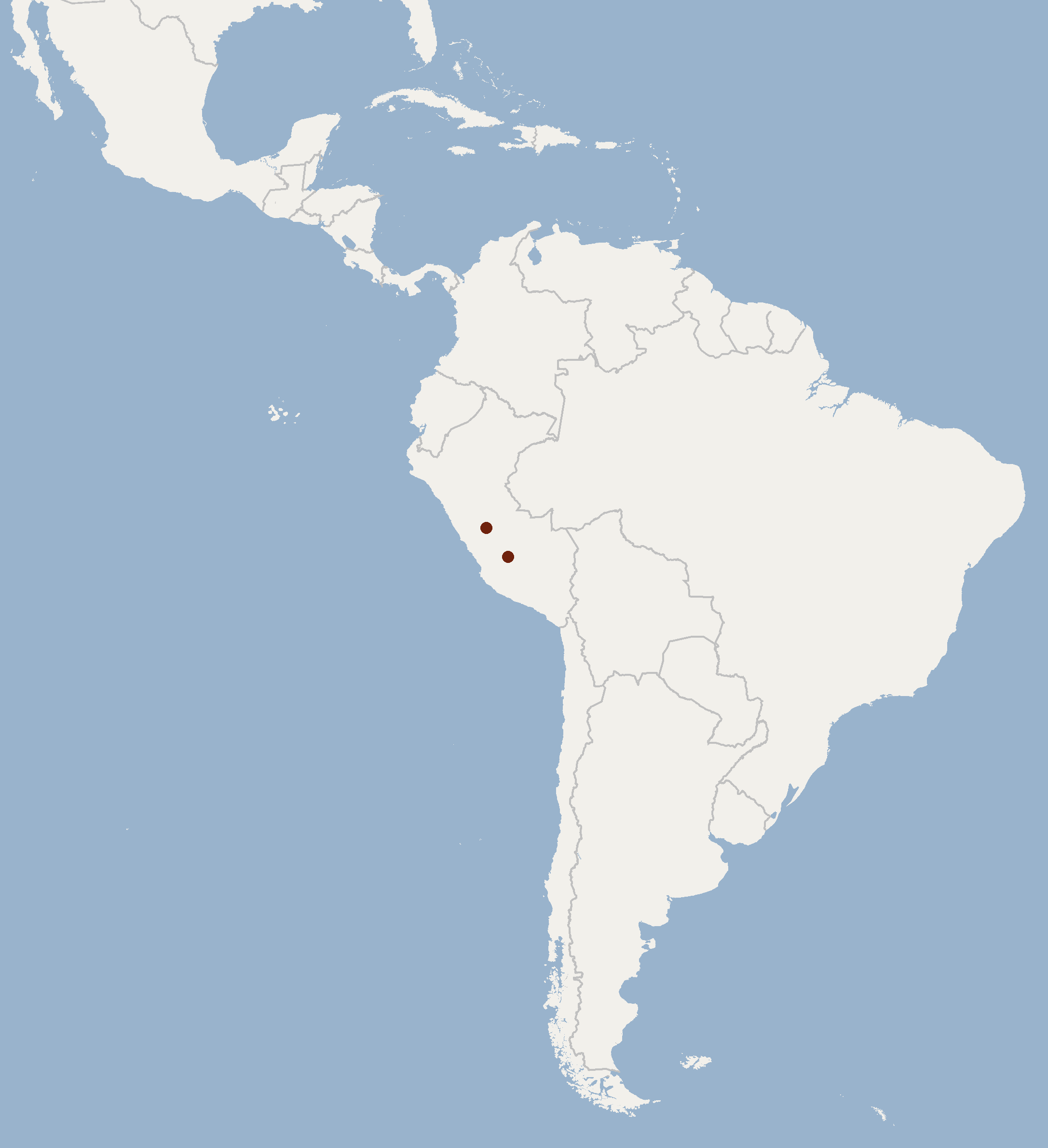 Geographical distribution of Mimon koepckeae according to Gardner, 2008